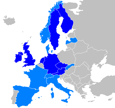 Nations of 2008 European Lacrosse Championship Men's team and Women's team Only Men's team